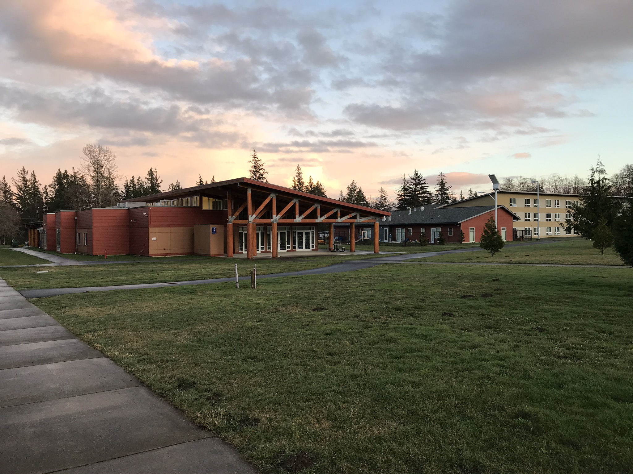 Buildings on the south campus of Northwest Indian College in Bellingham, Washington. From left to right: Center for Student Success, Early Childhood Learning Center, Student Housing/Dining Hall.